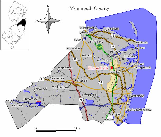 Source: Jim Irwin